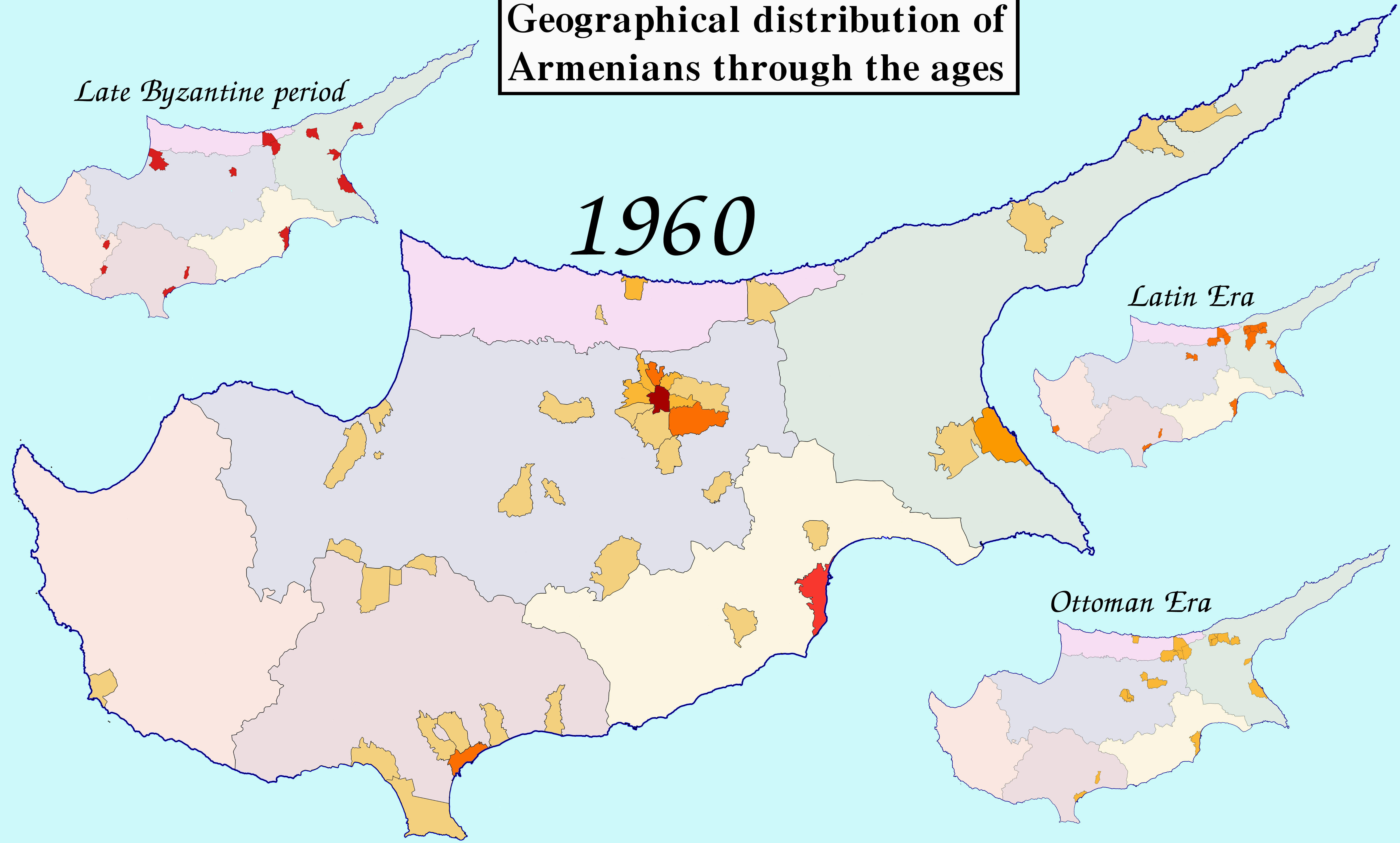 Geographical distribution of Armenian-Cypriots.